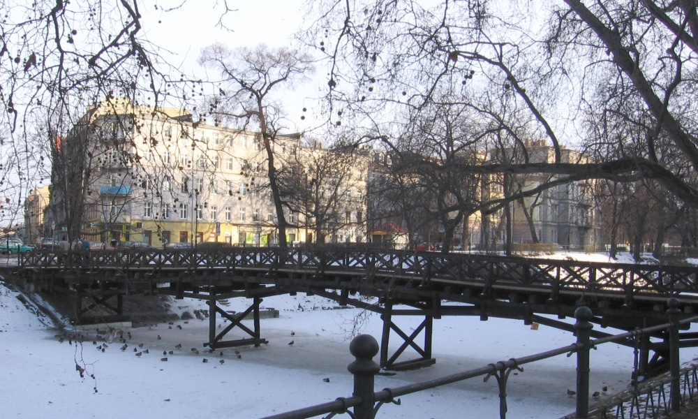 pedestrian bridge of St. Anthony over town moat